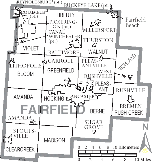 Map of Fairfield County, Ohio, United States with township and municipal boundaries